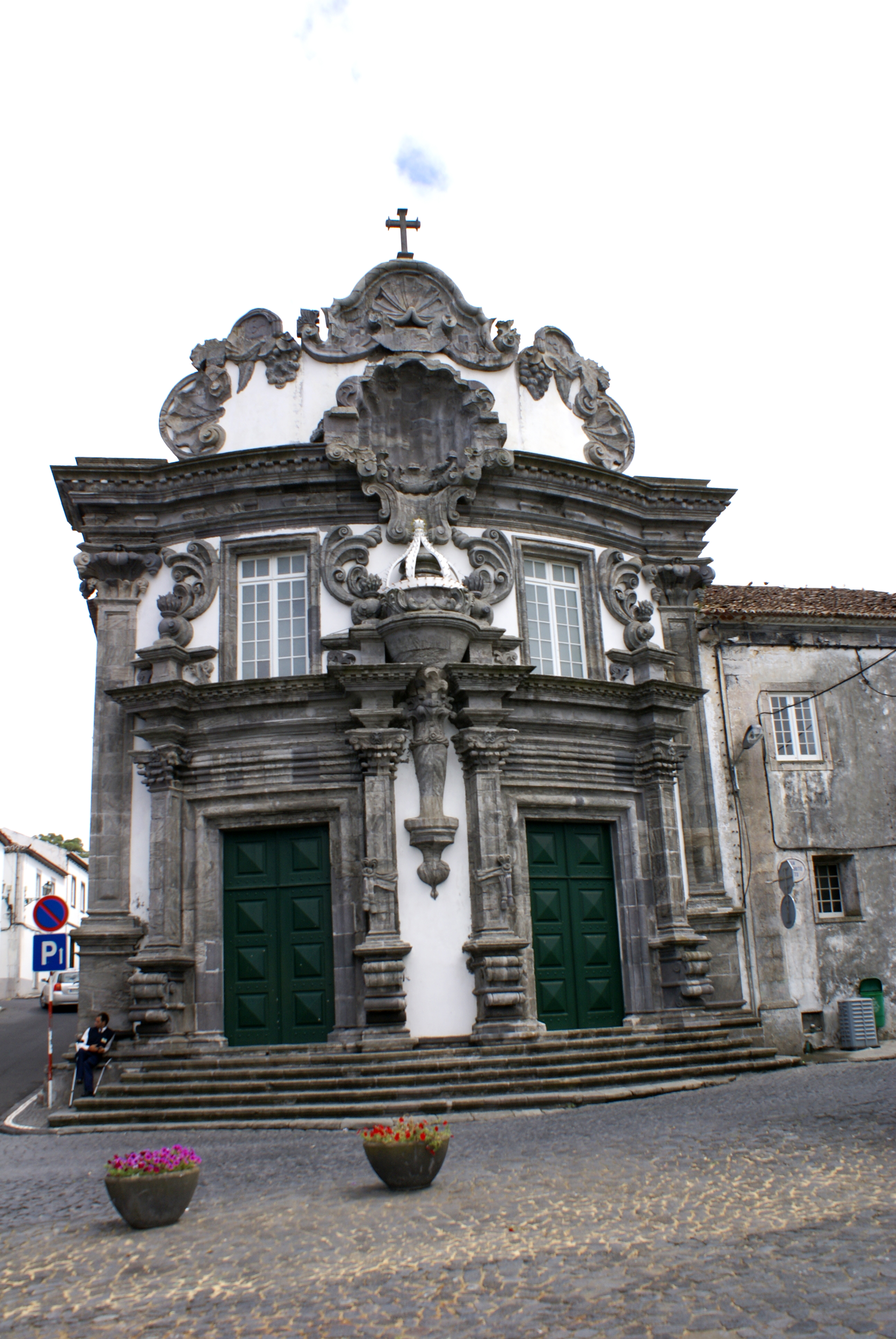 Front façade of the Chapel of the Espírito Santo, Ribeira Grande, São Miguel (Azores), Portugal